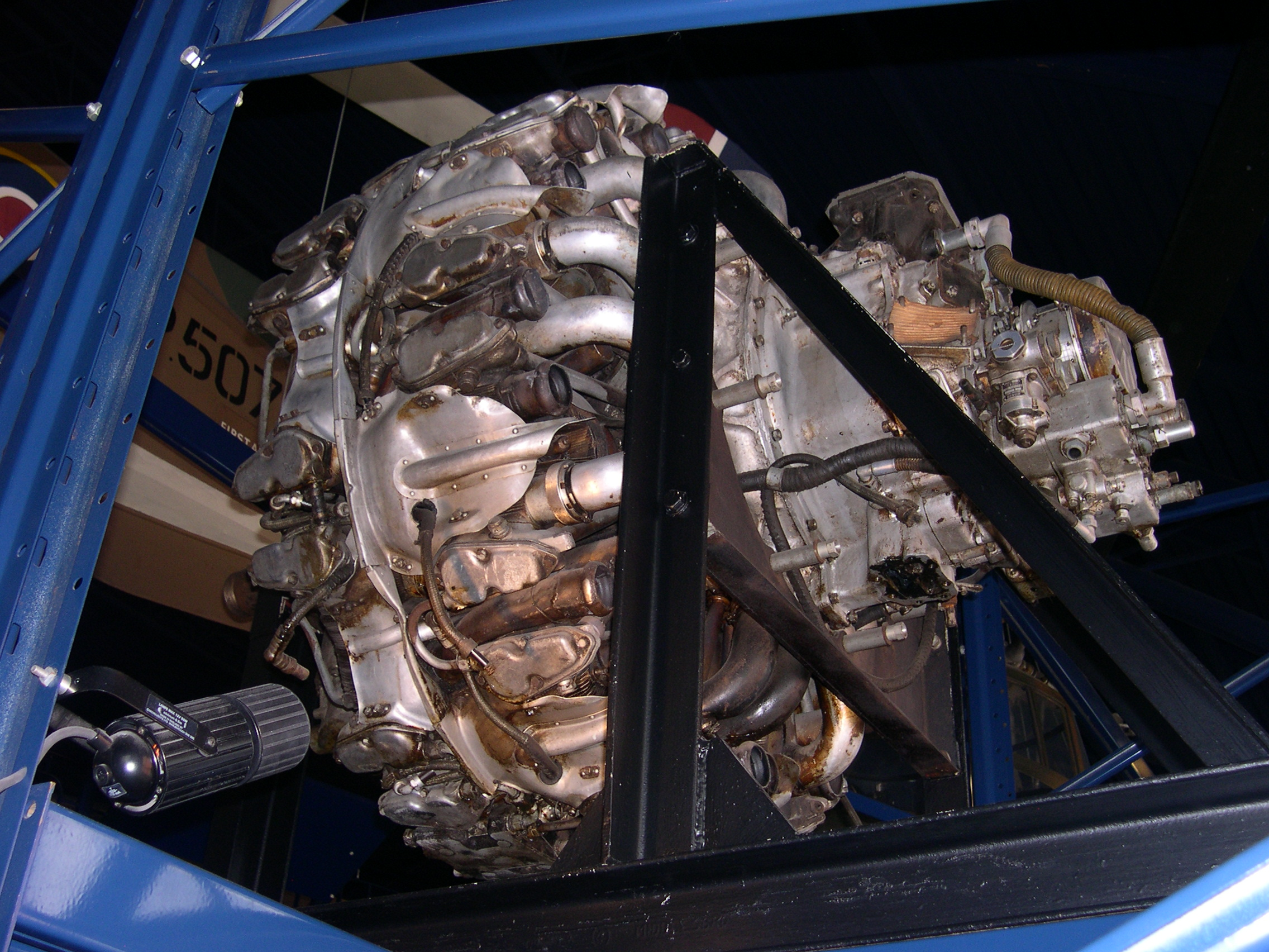 Nakajima Homare Engine at London Science Museum